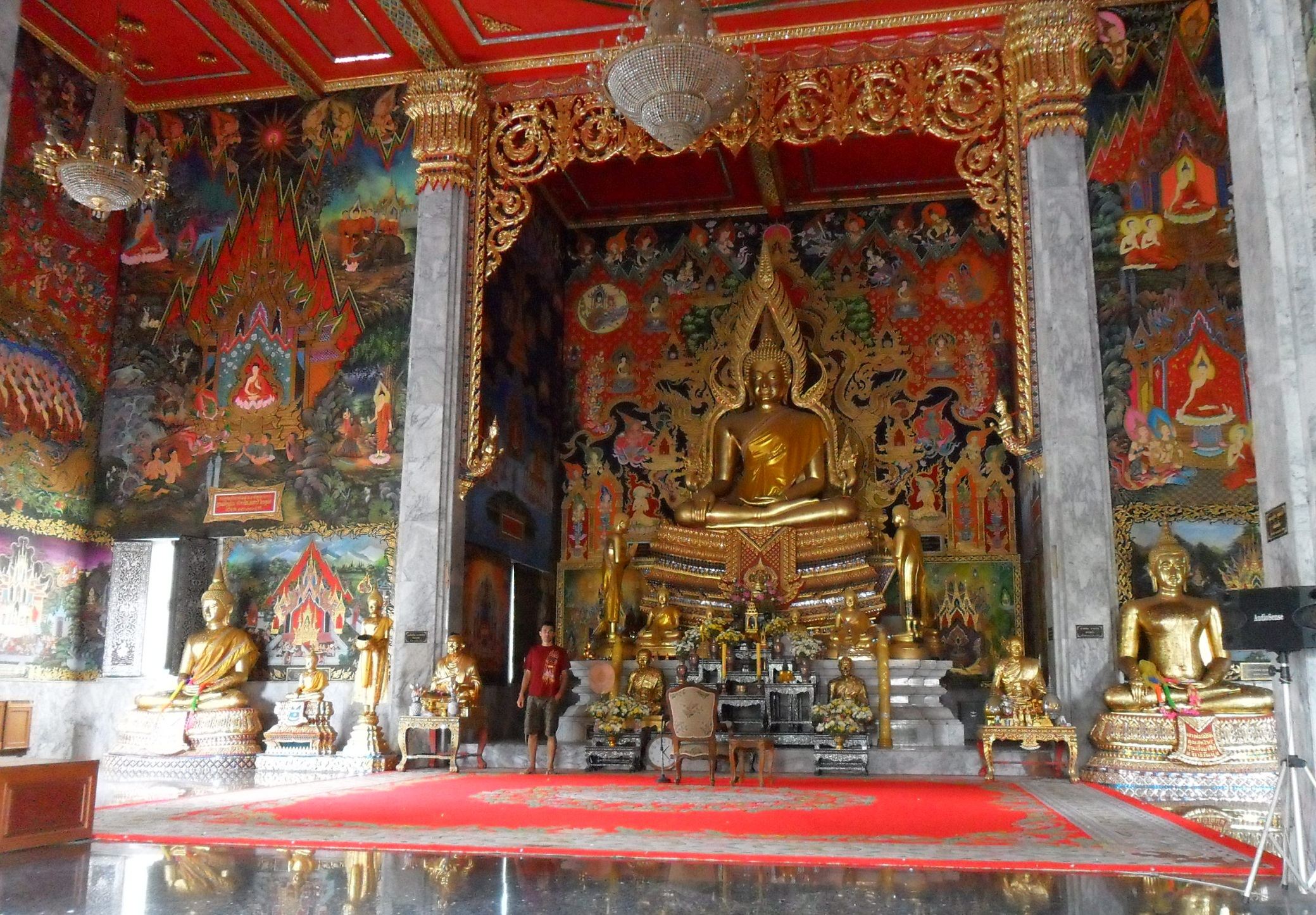 Inside a Buddhist Temple, Wat Ban Pong, Ban Pong, Thailand